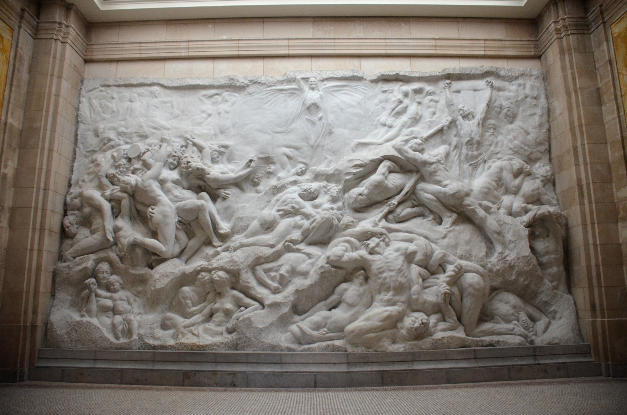 This is a file created at the museum: Jubilee Park Museum in Brussels